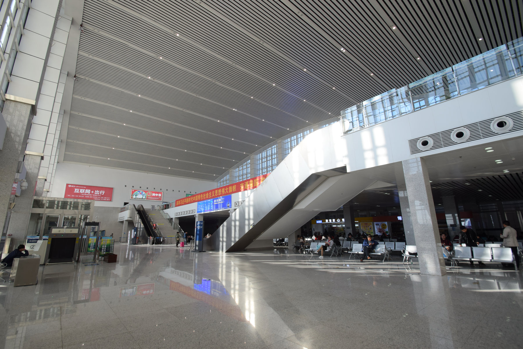 Concourse of Zhaoqing Dong (East) Railway Station